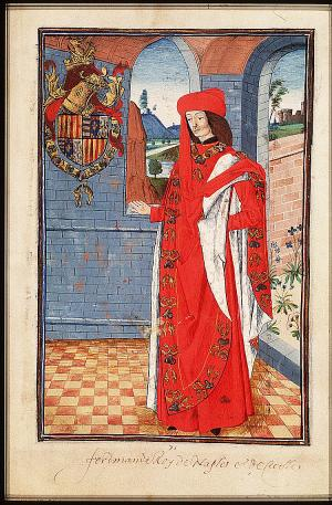 Statuts, Ordonnances et Armorial de l'Ordre de la Toison d'Or (Statutes, Ordonnances and armorial of the Order of the Golden Fleece) Place of origin, date: Southern Netherlands; 1473. Added sections: Southern Netherlands; 1478 or shortly after and 1491 or shortly after Material: Vellum, ff. 86, 249x187 (167x106) mm, 23 lines, littera cursiva (lettre bourguignonne). French. Binding: 18th-century brown leather Decoration: 1 full-page miniature (170x115 mm) with border decoration; 92 miniatures (185/155x120/100 mm); 1 historiated initial (80x90 mm) with border decoration; decorated initials with border decoration (ff., Added section: miniatures ; 4 drawings for miniatures (not finished) Provenance: Presented in 1473 by Gilles Gobet, King of Arms of the Order of the Golden Fleece, to Charles the Bold, Duke of Burgundy and the other Knights during the Chapter of the Order held at Valenciennes; Treasure of the Golden Fleece, Brussls; taken away by the Treasurer C.-F. Humyn (d. 1735) or his daughter C.Ch. de Corte; by legacy to her daughter M.-L. de Corte, wife of Ph.-E. de Poederlé; purchased in 1781 at the Poederlé sale by G.-J- Gérard of Brussels; acquired in 1832 as part of the Gérard collection (no. A 27)